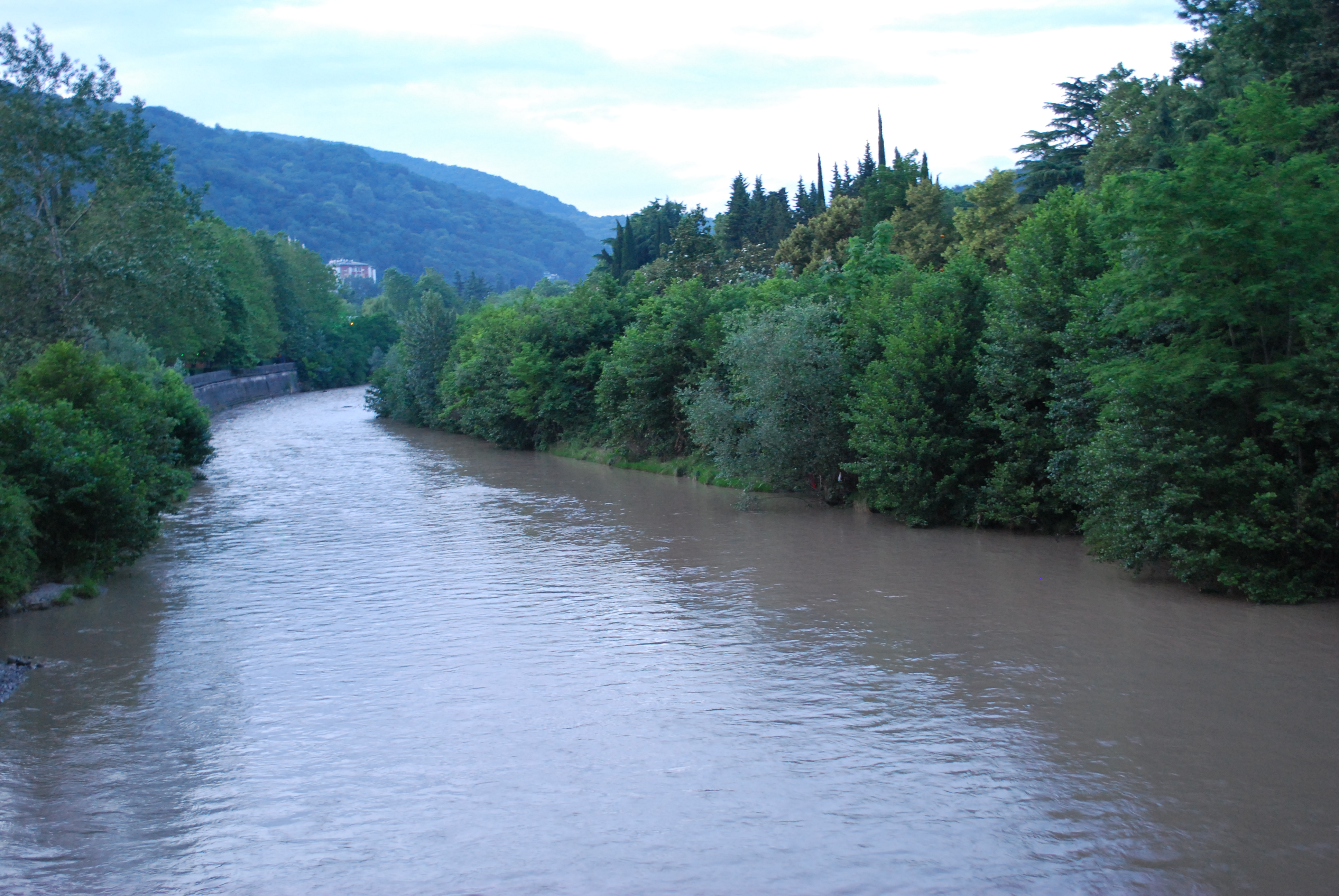 Hosta River (Sochi)